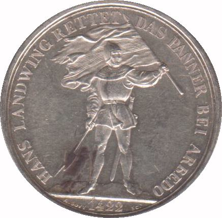 1869 Shooting Thaler Reverse